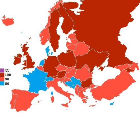 European maximum speed limits on rural roads (in kilometers per hour) by country.